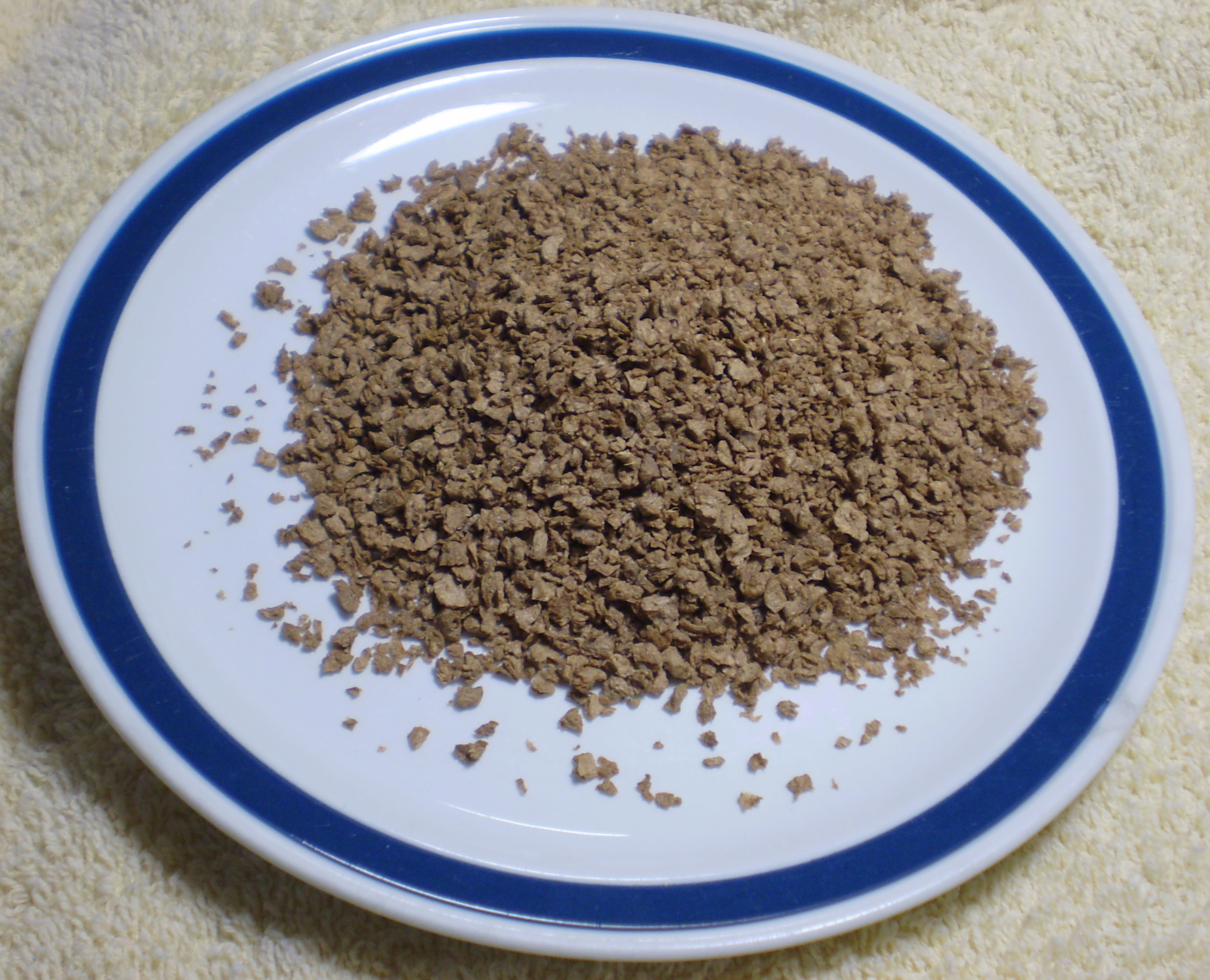 Dark soy groats on the plate